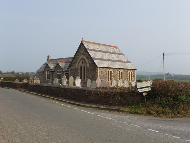 Former Methodist chapel, Titson This chapel has been converted to a dwelling house. A peculiarity of the site is that the churchyard surrounds the house on three sides, but is separate from it, and seems to be open to the public.